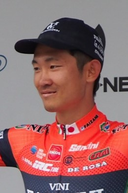 This image was clipped from Image:Japan_Cup_Cycle_Road_Race_2019_PA201765.jpg